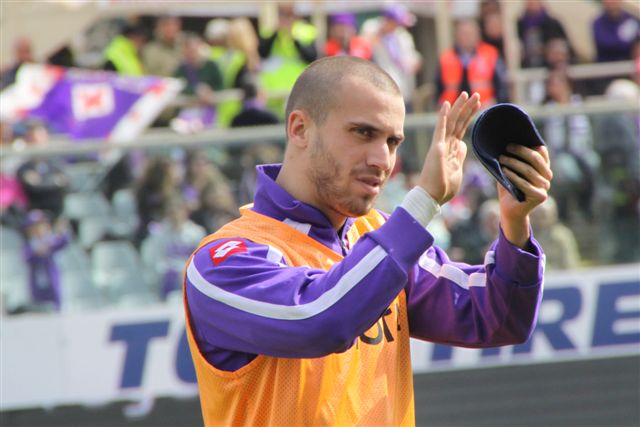 Italian football player Lorenzo De Silvestri (Fiorentina F.C.)